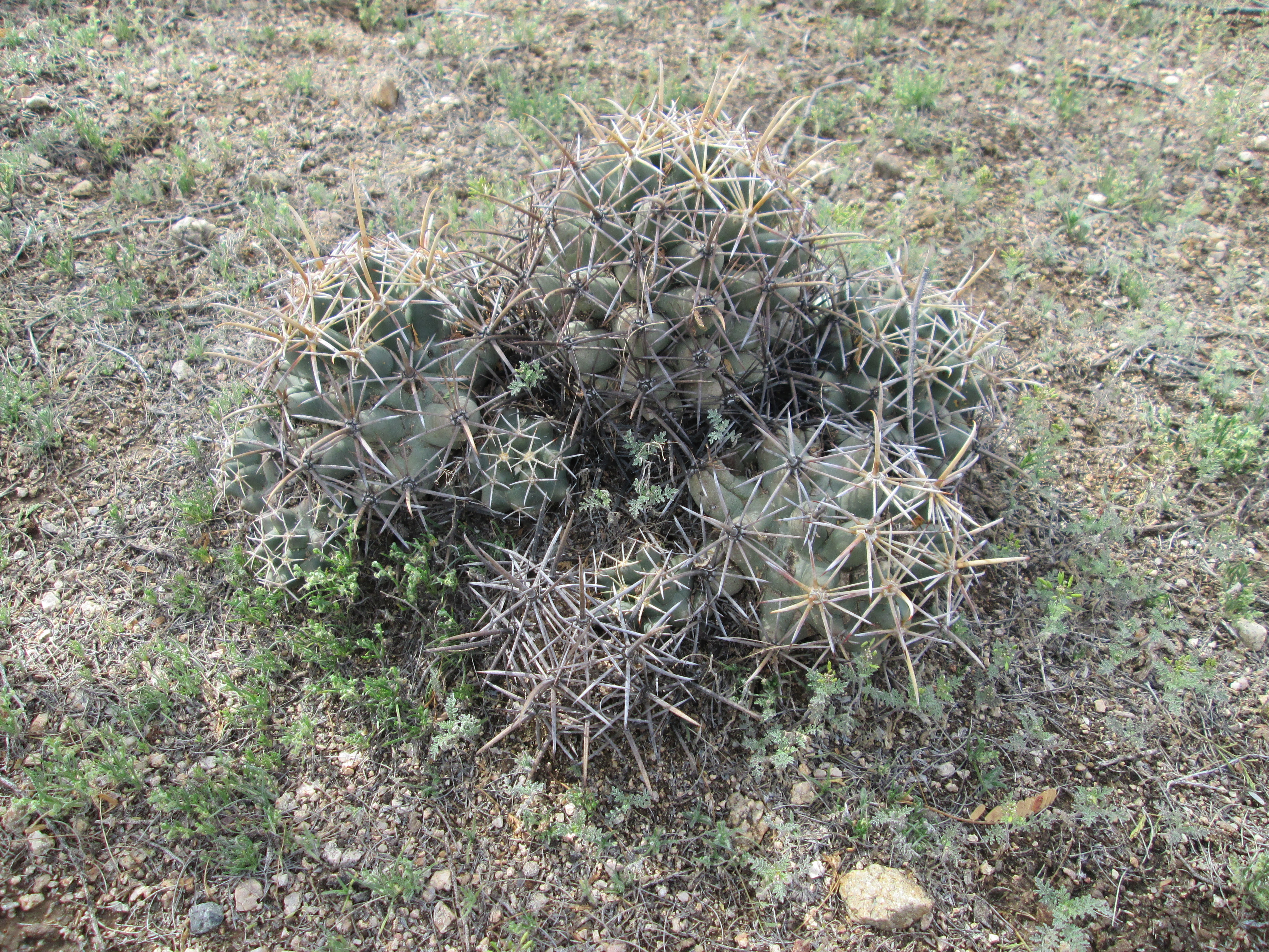 Pima Pineapple cactus cluster in Sahuarita, Arizona. March 4, 2014